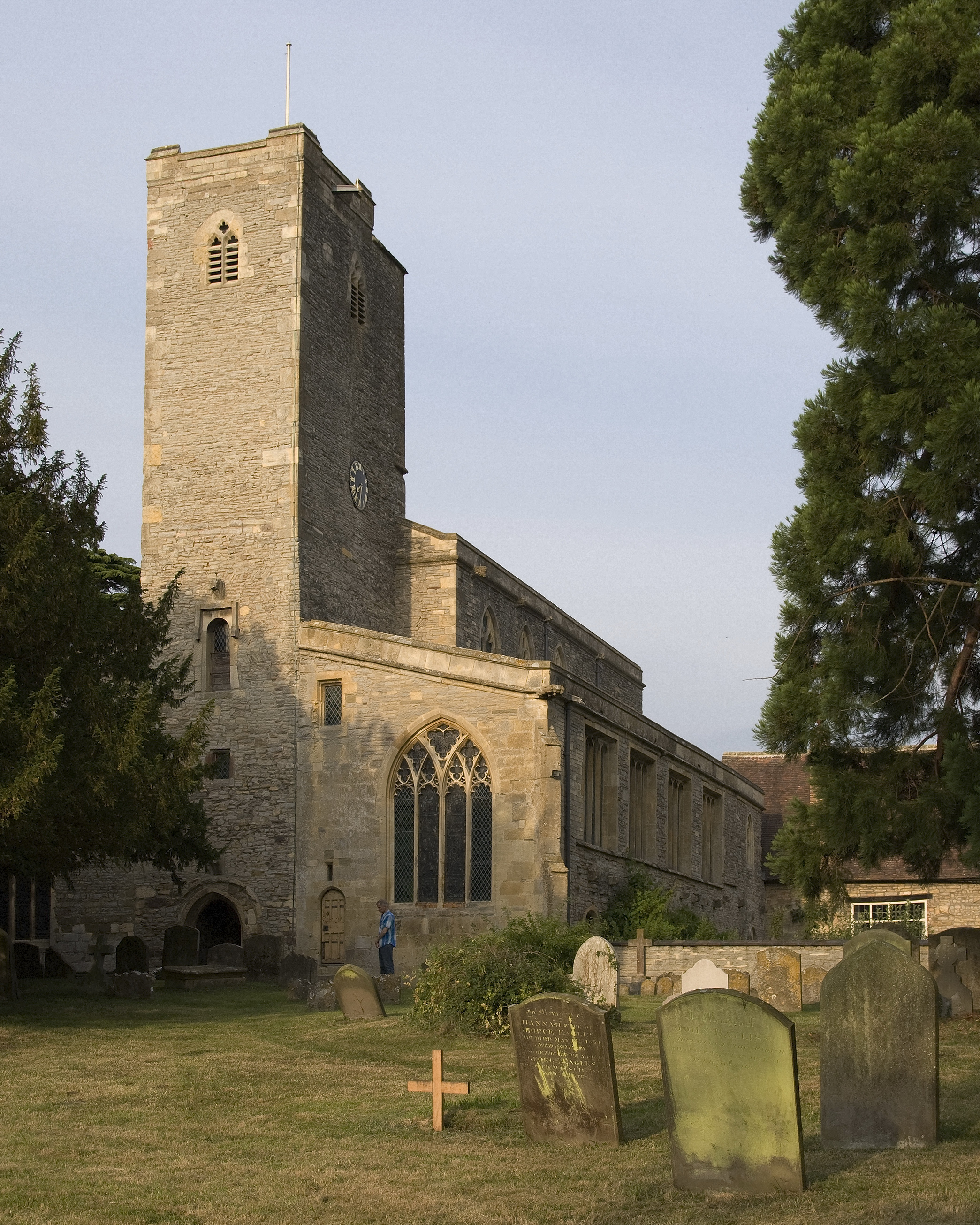 Priory church of St Mary, Deerhurst, Gloucestershire, seen from the west